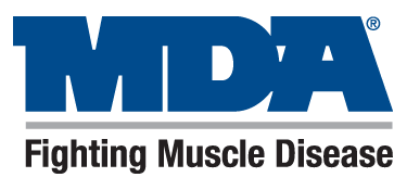 This is the Official MDA Logo, Uploaded June 2013